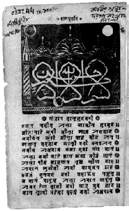 Photo of a page from a Sylheti Nagri book written in the 1800s.